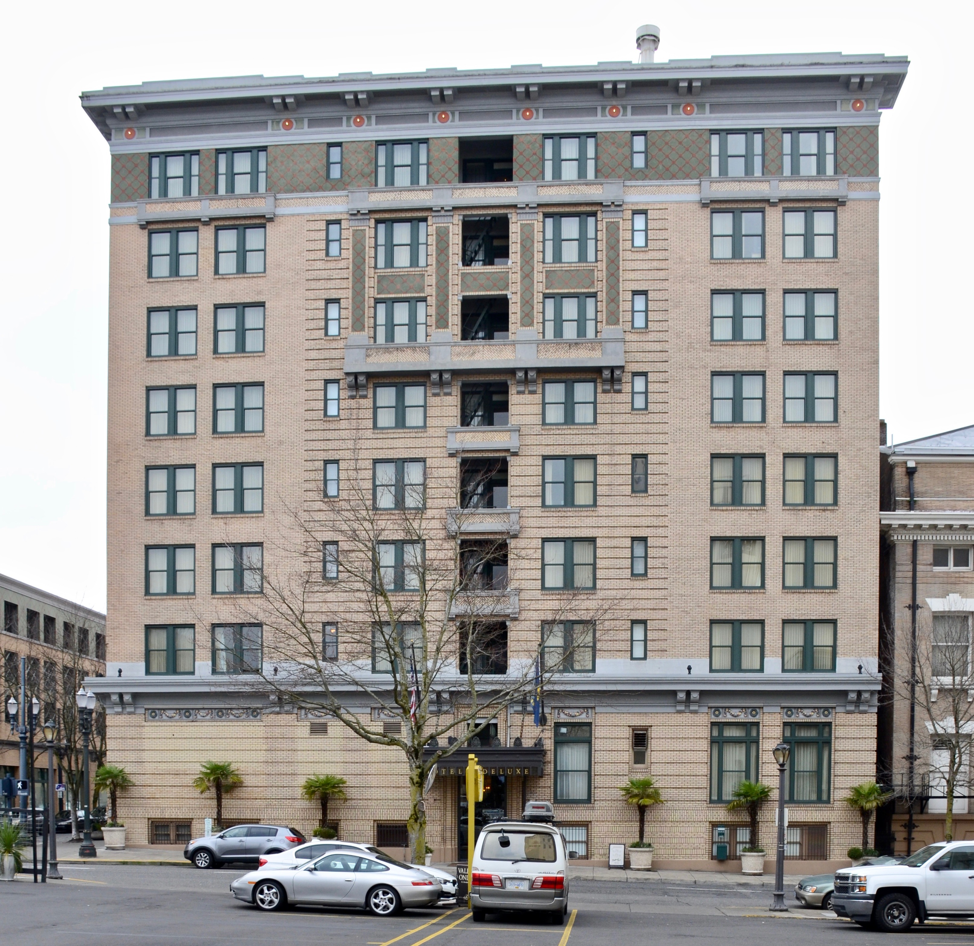 An east elevation – the building's main, front façade – of the historic Mallory Hotel building, at SW 15th & Yamhill in Portland, Oregon. Still in use as a hotel, the building has housed the Hotel deLuxe since 2006. It is listed on the U.S. National Register of Historic Places under its original name.